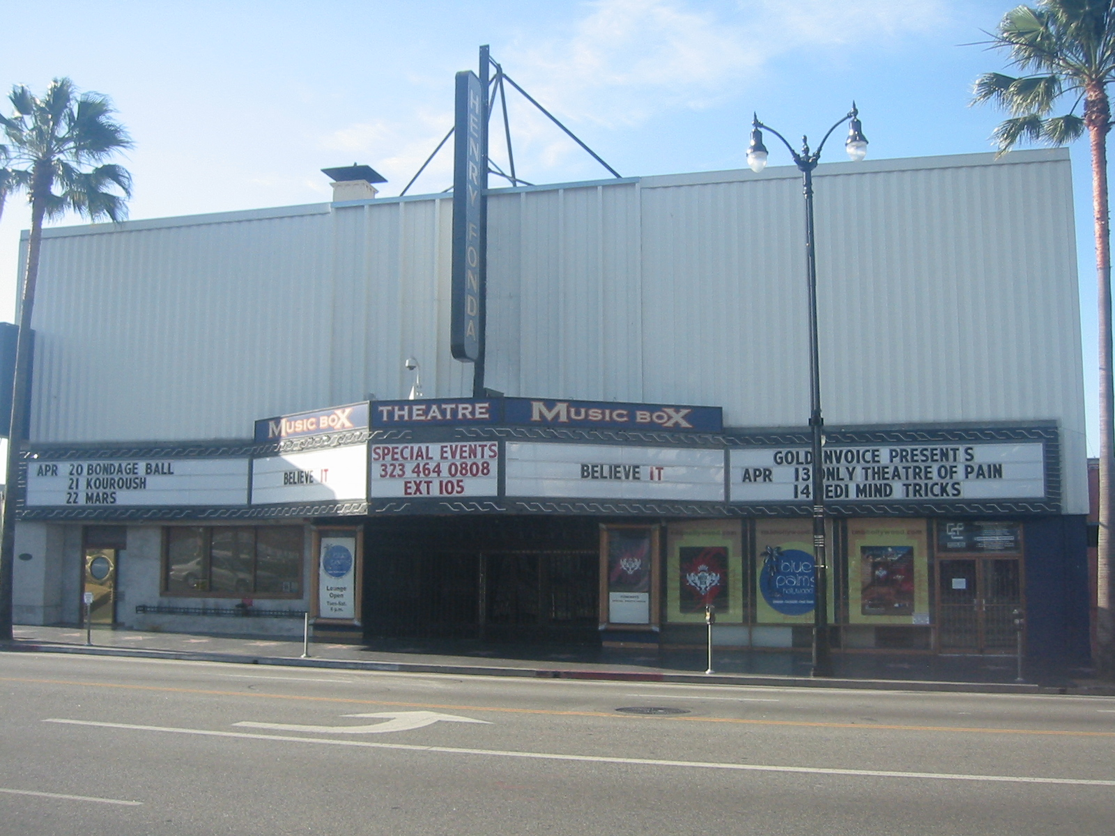 Henry Fonda Theater in Hollywood, California